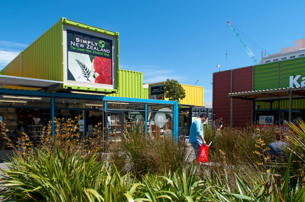 In the Re:START "Cashel Mall on a walk around Christchurch November 24, 2013 New Zealand.